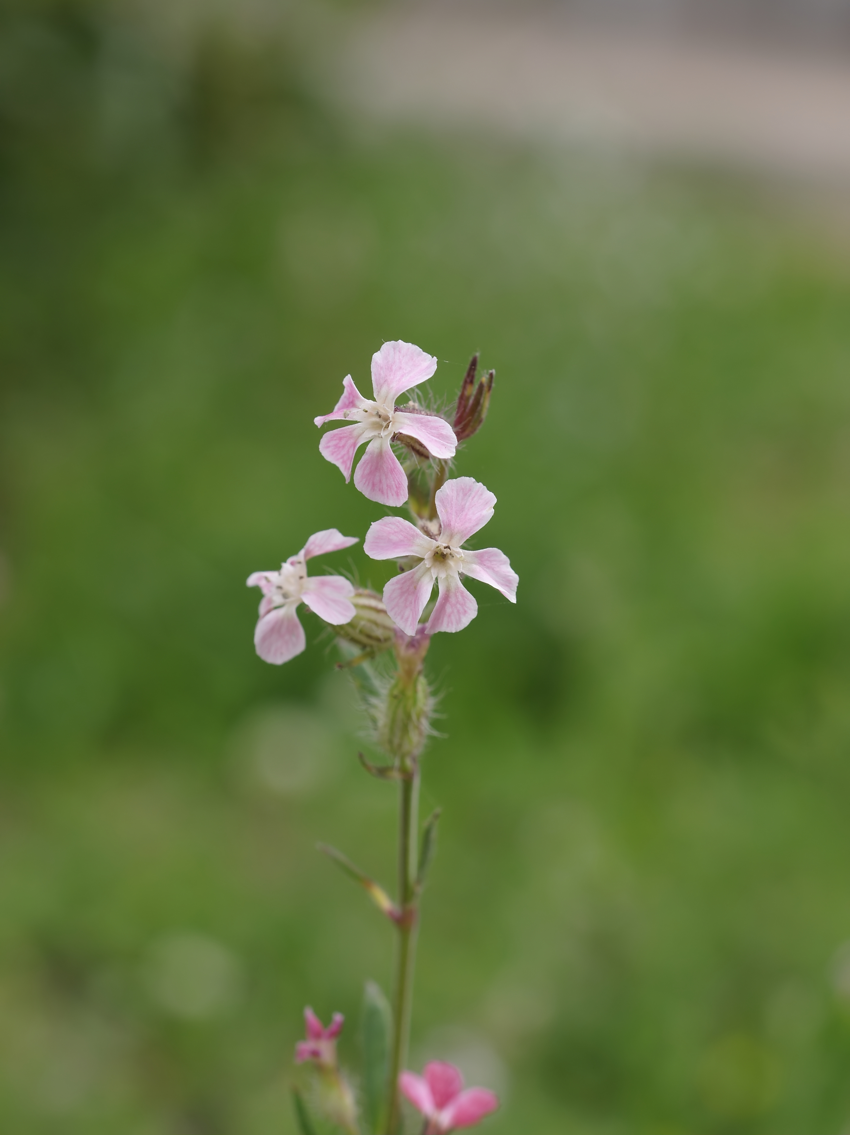 Common catchfly at Torre Grande, Sardinia, Italy.